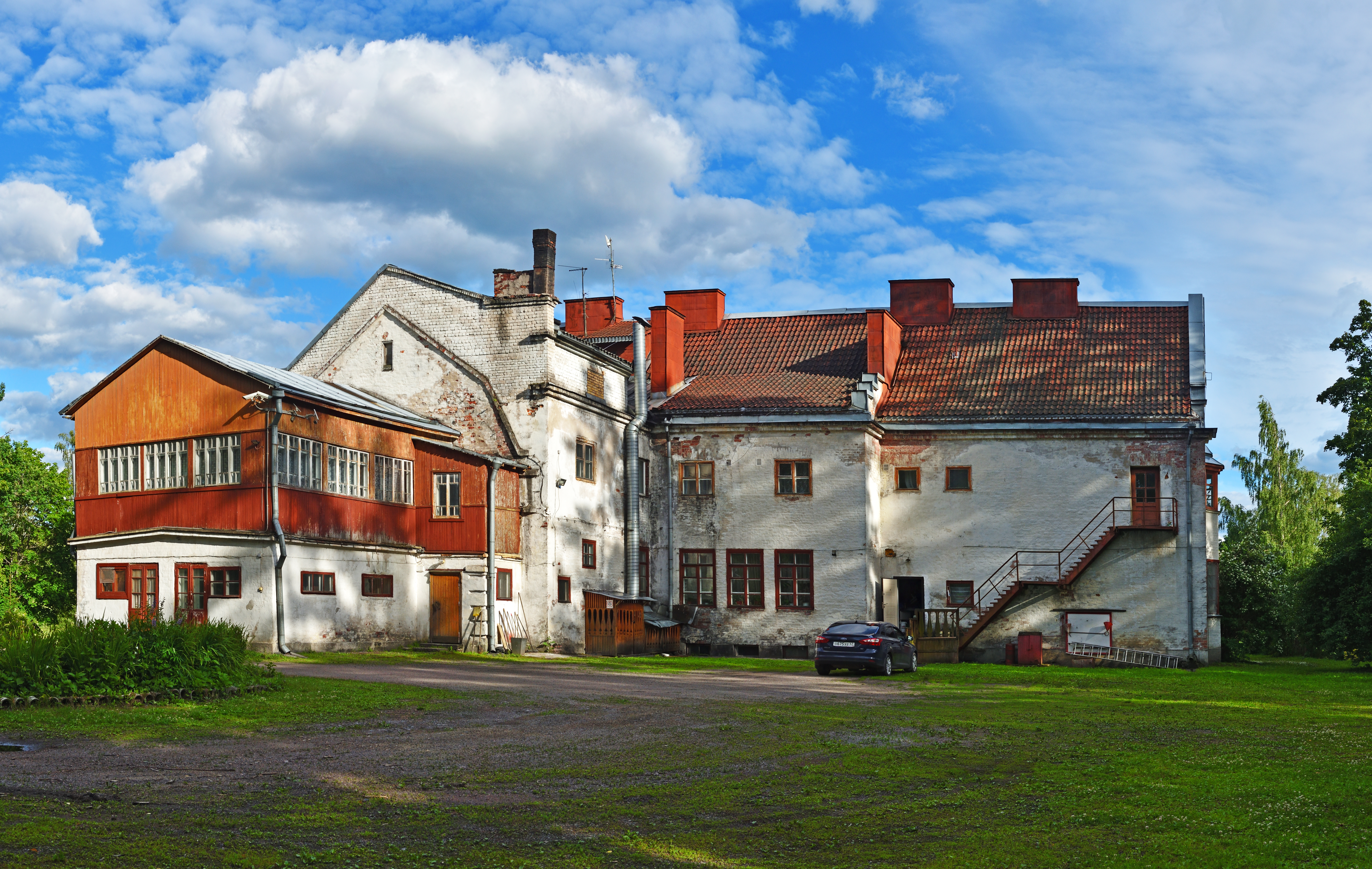 Volf manor, Generatornaya street 1, Lesogorsky, Leningrad oblast, Russia